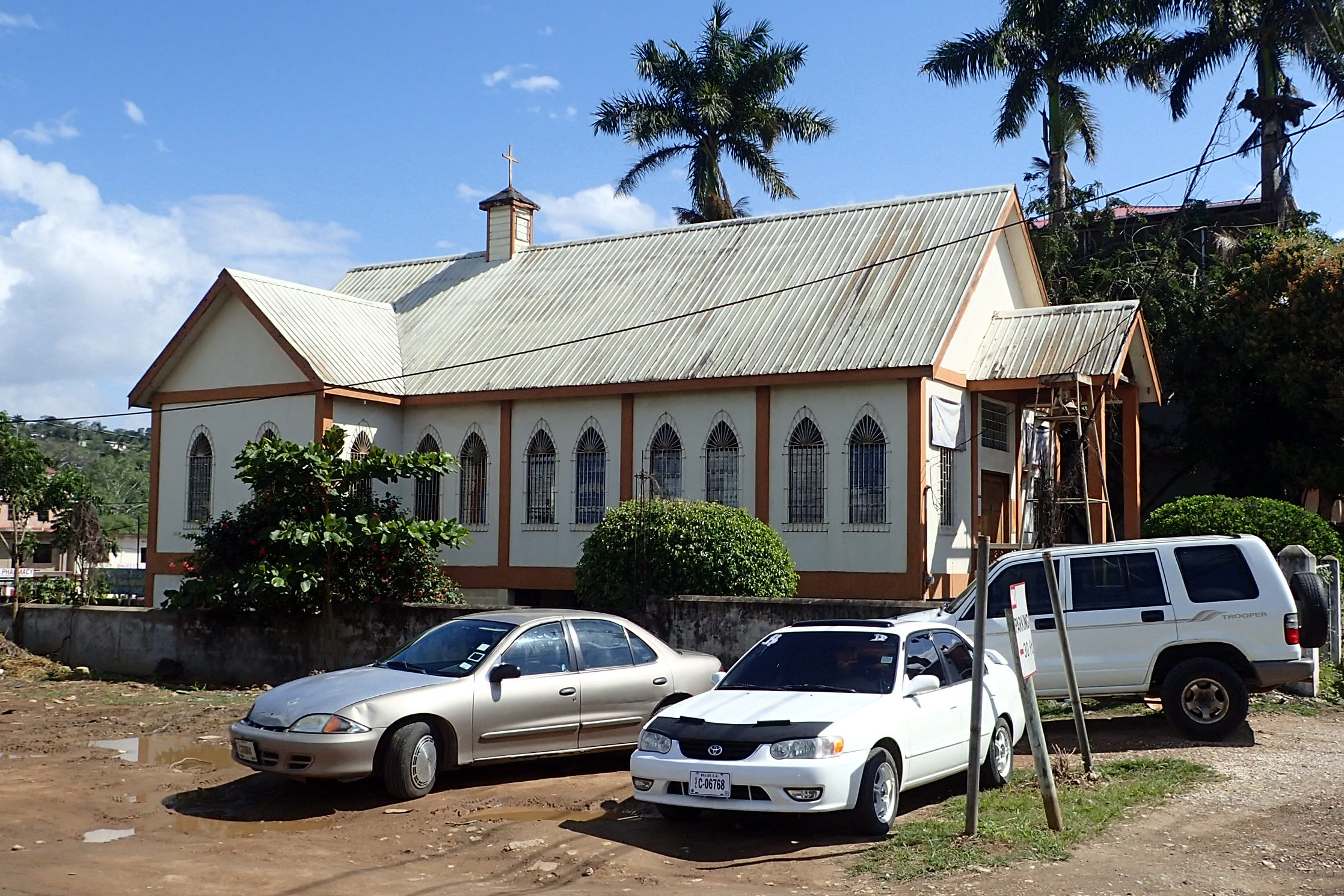 St. Andrew's Anglican Church, in San Ignacio, Belize